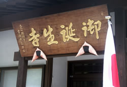 Gotanjyoji genkan